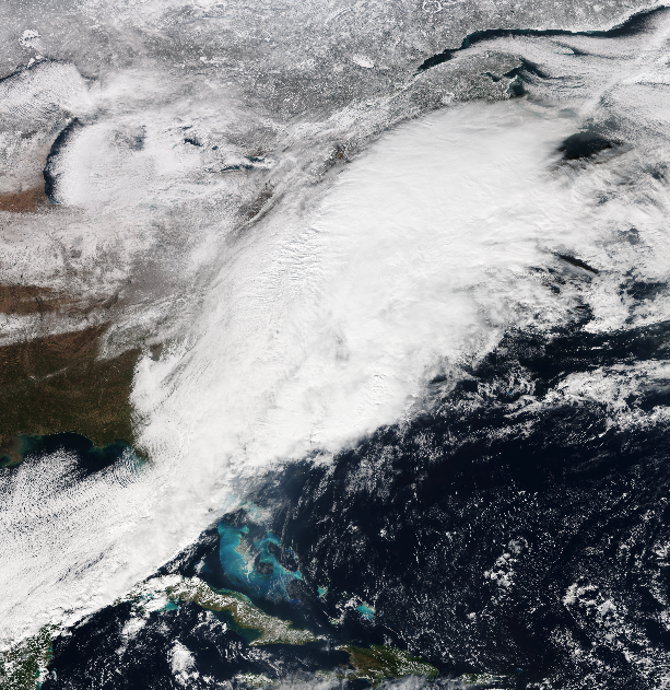 Satellite image of the winter storm driving up the East Coast of the United States.